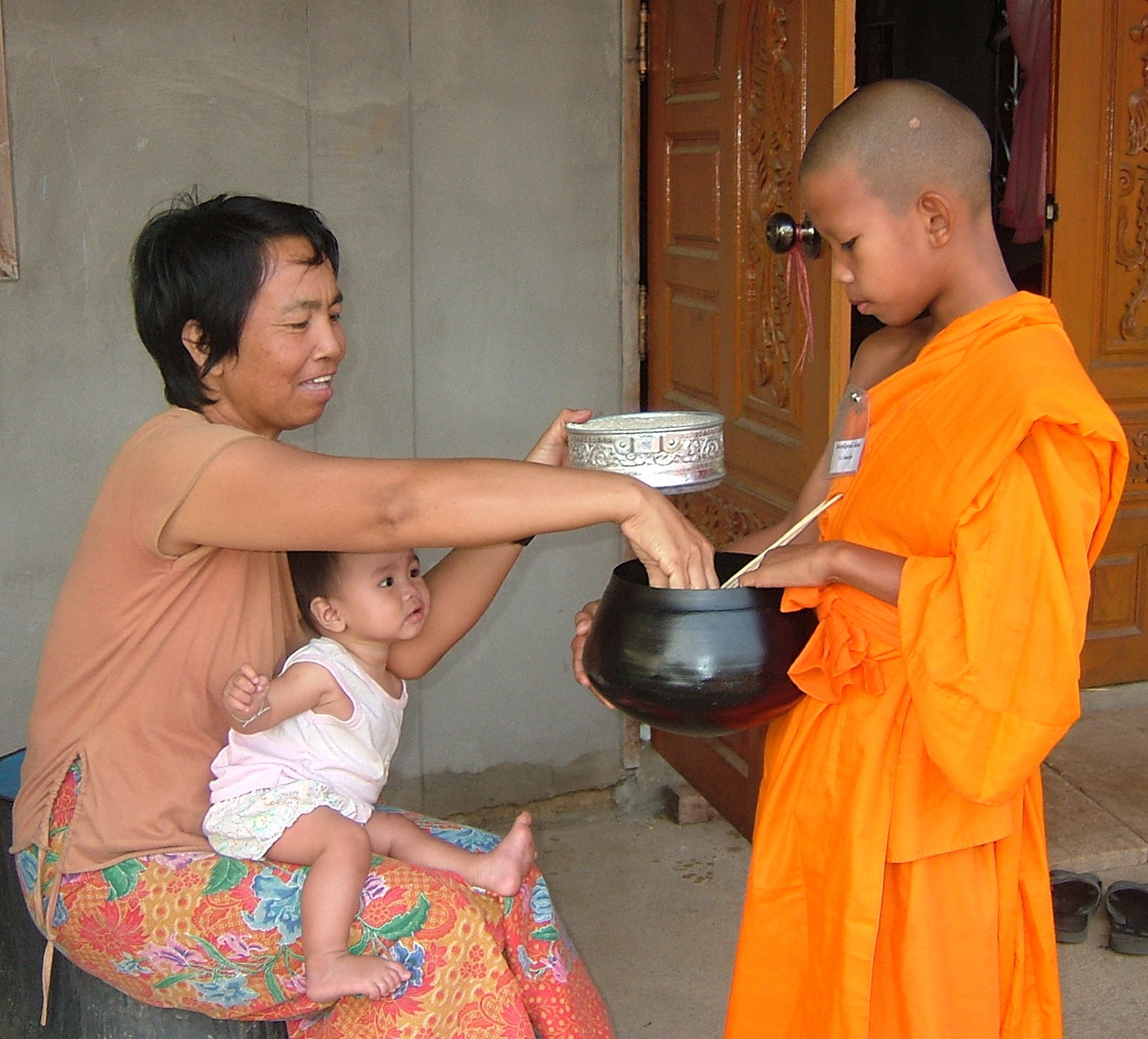 ชาวพุทธกำลังใส่บาตร Buddhist is puttinging food into the bowl of the Buddhist priest